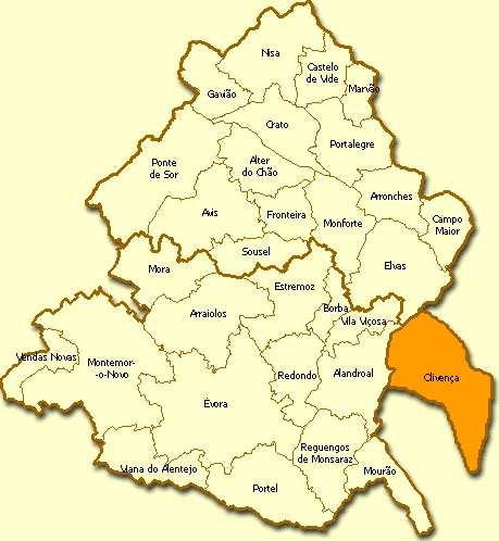 Unofficial map of Olivenza, annexed by Spain in 1801.